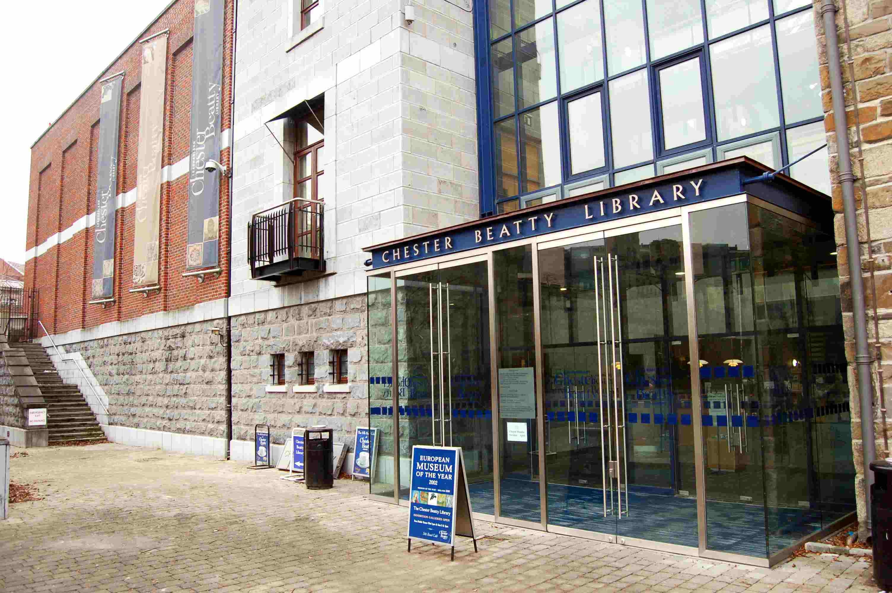 Entrance.